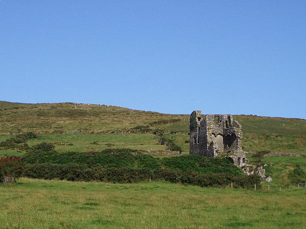 Caislean Rathanain (Castle Rahinanne) The castle has a fantastic view of Ventry harbour. Originally a medieval rath (domestic ring fort) stood on this site. In the 15th century a Fitzgerald knight of Kerry built the castle. On 5th March 1602 Elizabethan forces took over the castle (the knights had become rebellious). Ultimately the castle was mostly destroyed in the Cromwellian wars 50 years later, although it remained as a diminished family residence until the 18th century. It is 40ft long and 20ft wide, and is of a 'tower house' type.